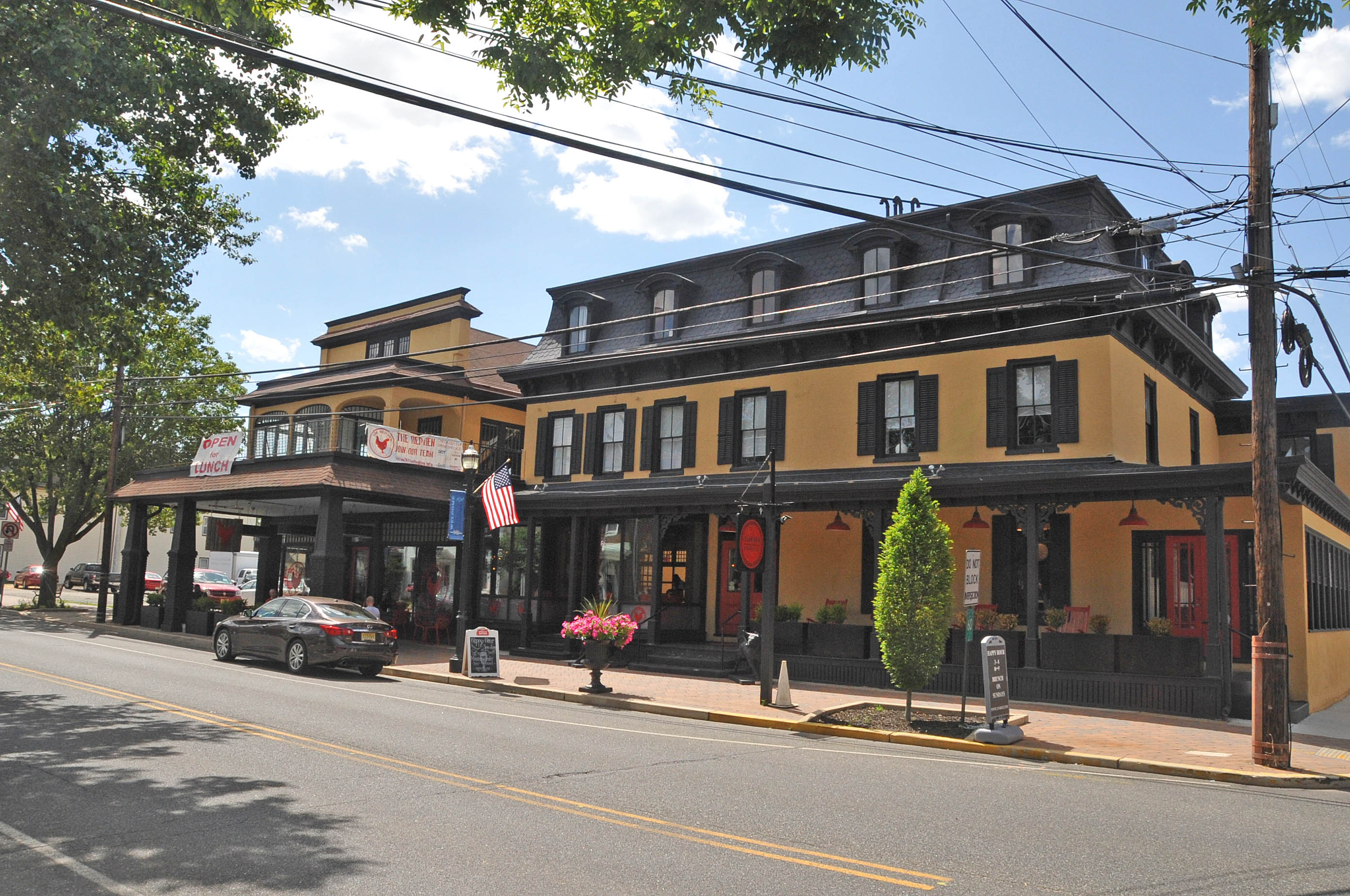 ORIGINALLY KNOWN AS RAMBO TAVERN AND DATES BACK TO THE EARLY 18TH CENTURY WHEN IT WAS LEASED FROM TRINITY CHURCH. IT LATER BECAME KNOWN AS WASHINGTON TAVERN AND STILL OPERATES AS A RESTAURANT BUT WITH A STILL DIFFERENT NAME